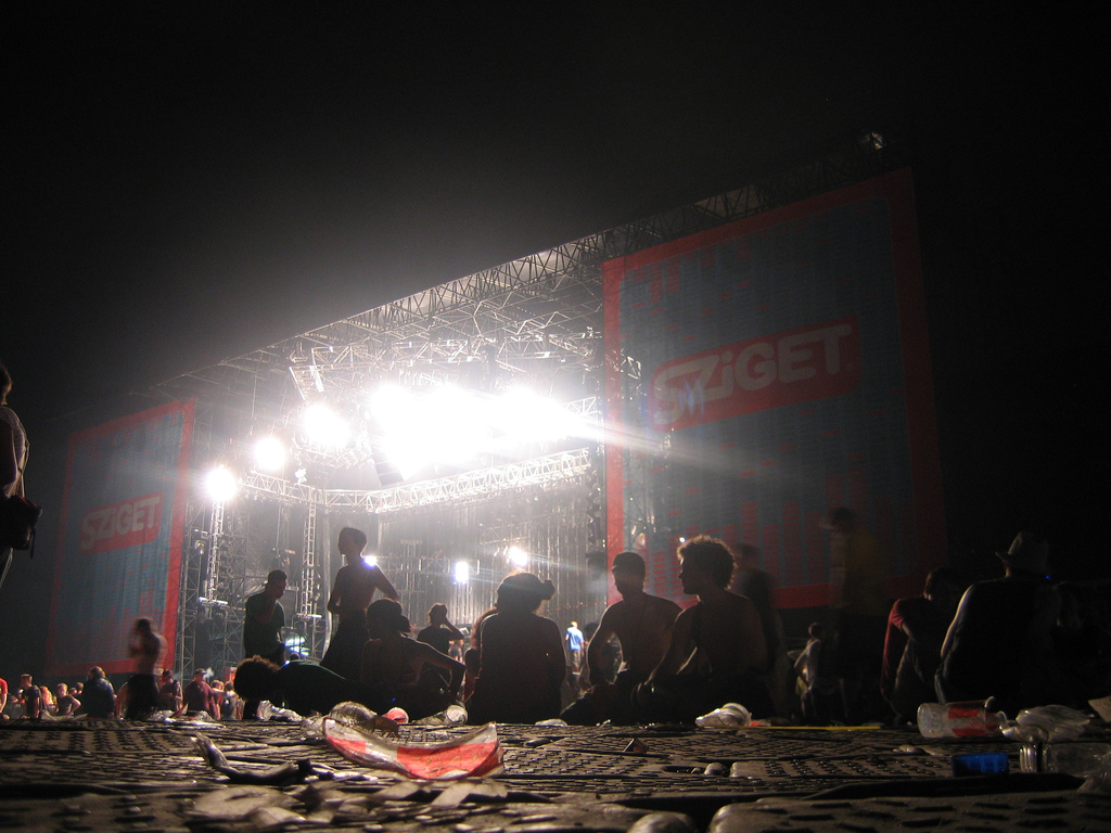 Sziget, Budapest